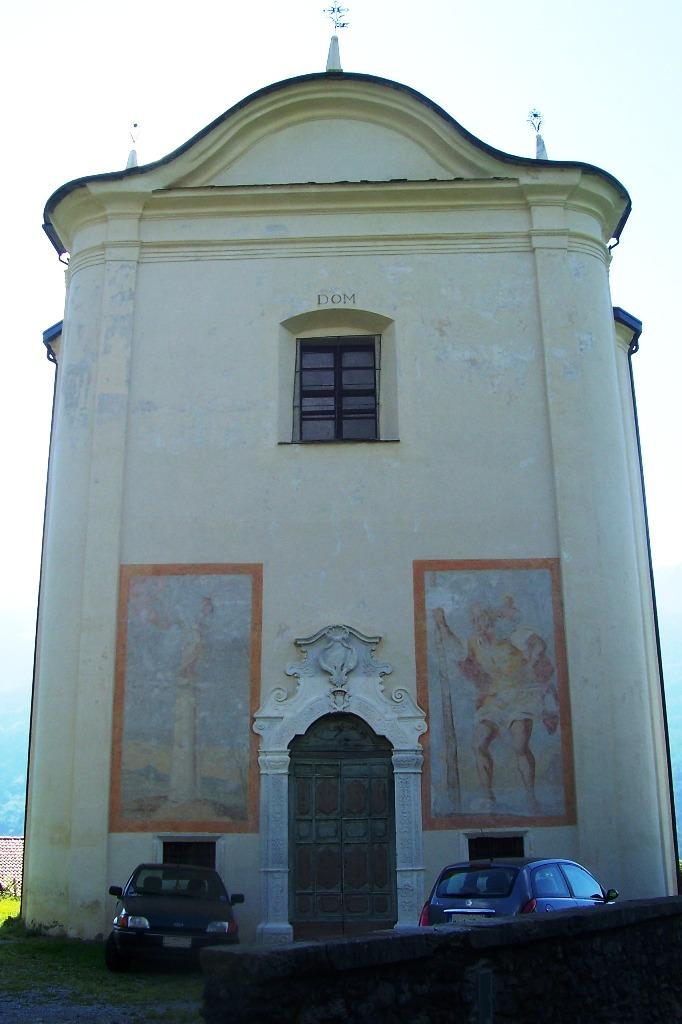 Church of SS. Sebastian and Fabian. Monno, Val Camonica, Italy